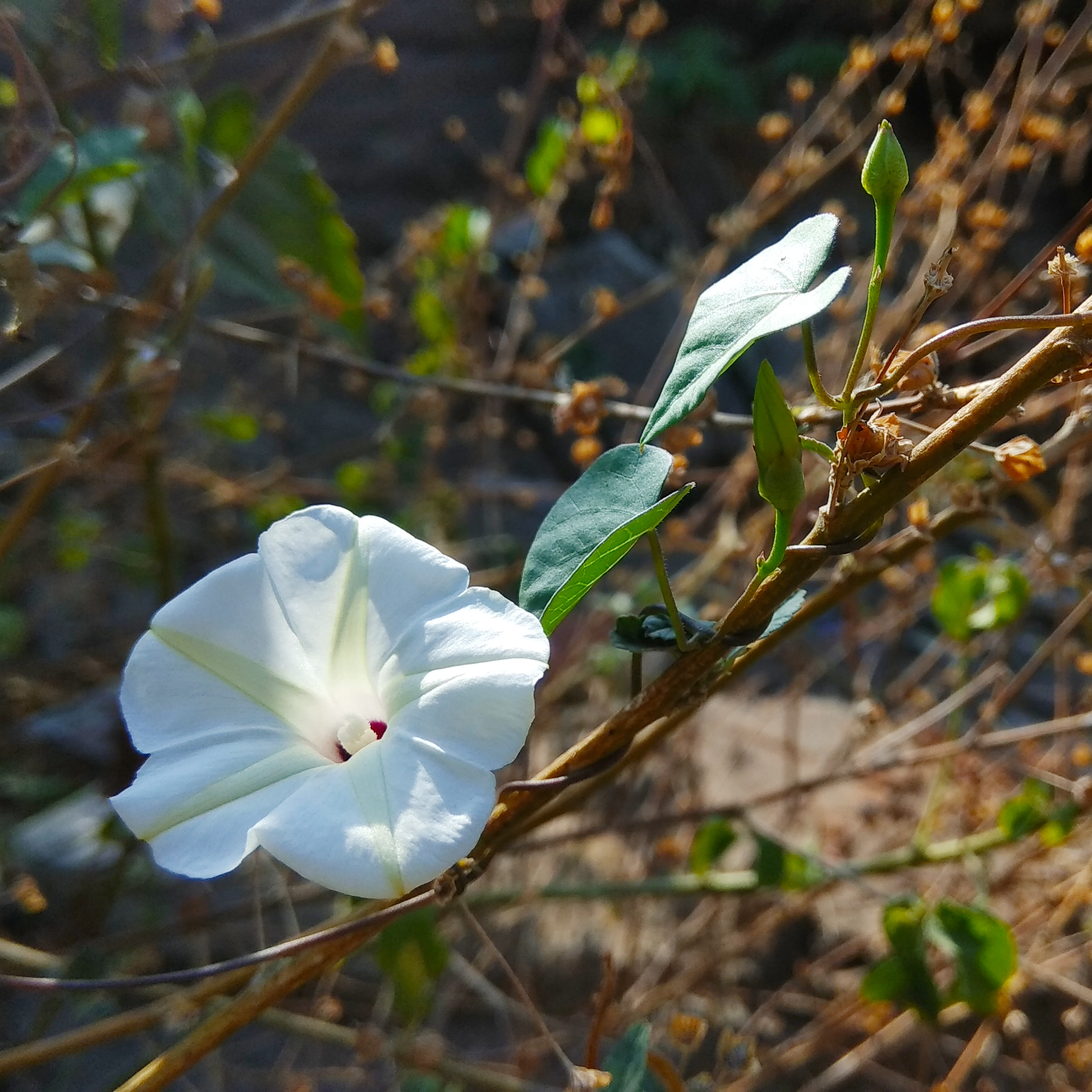 ipomoea obscura